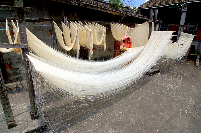 Misua noodle Chinese noodle noodle-making Lukang Town, Taiwan Province